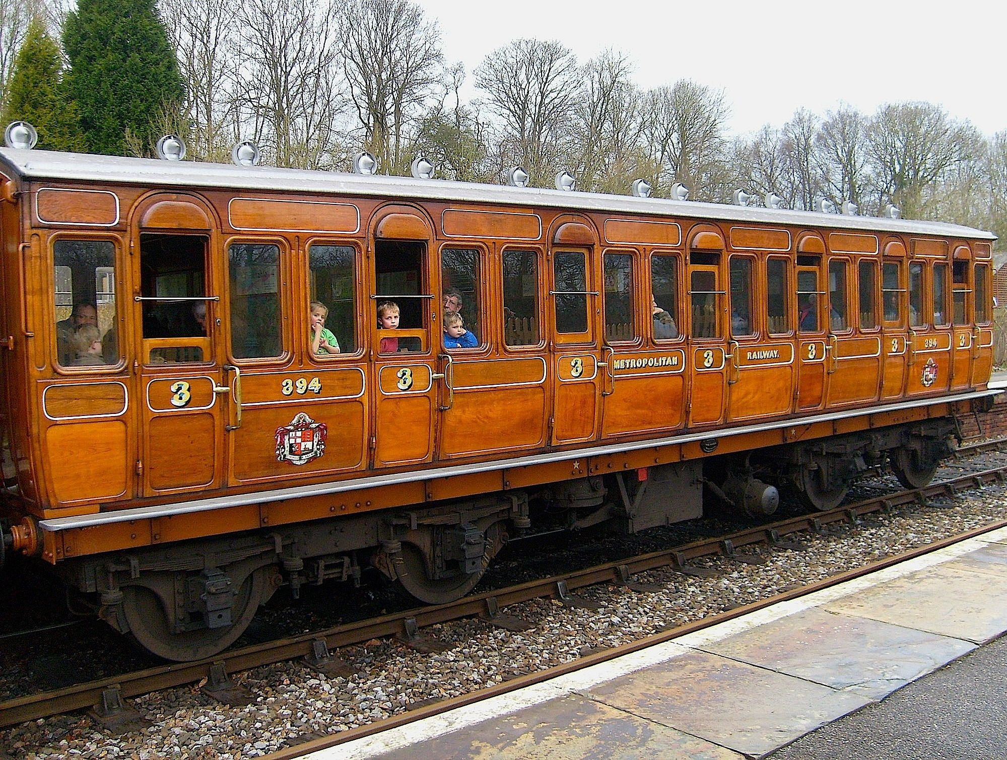 Metropolitan Railway Third Class Chesham carriage No. 394